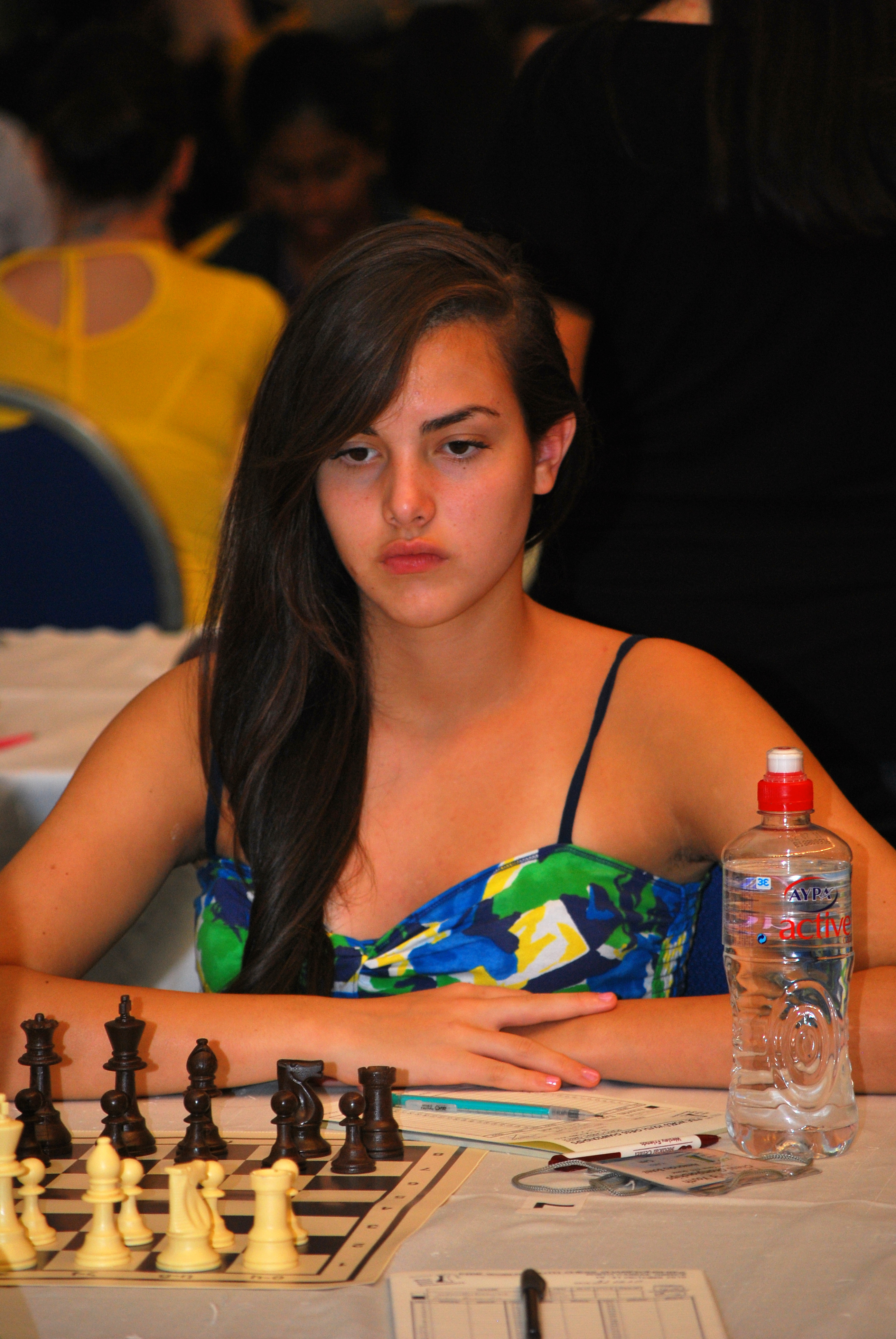 Alexandra Botez playing chess in 2010